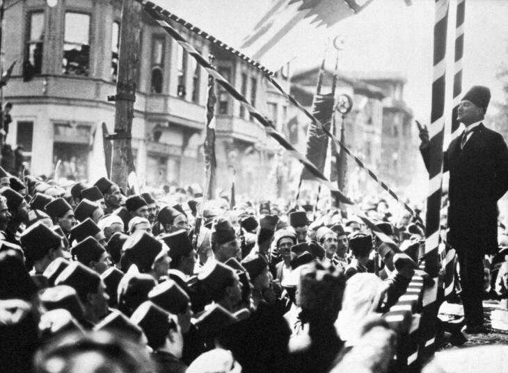 Mustafa Kemal (Atatürk) in Bursa. Kemal Atatürk (or alternatively written as Kamâl Atatürk, Mustafa Kemal Pasha until 1934, commonly referred to as Mustafa Kemal Atatürk; 1881 – 10 November 1938) was a Turkish field marshal, revolutionary statesman, author, and the founding father of the Republic of Turkey, serving as its first President from 1923 until his death in 1938. He undertook sweeping progressive reforms, which modernized Turkey into a secular, industrial nation. Ideologically a secularist and nationalist, his policies and theories became known as Kemalism. Due to his military and political accomplishments, Atatürk is regarded as one of the most important political leaders of the 20th century.